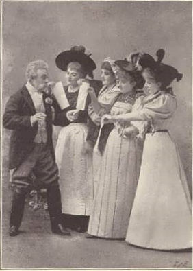 Robert Pateman as Major O'Neill in a review of The Lady Slavey - The Sketch. 28 November 1894 pg. 2